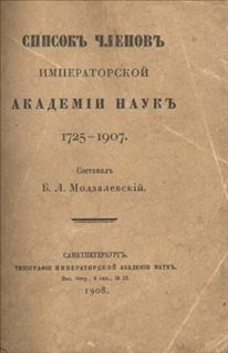 List of Imperial Academy members